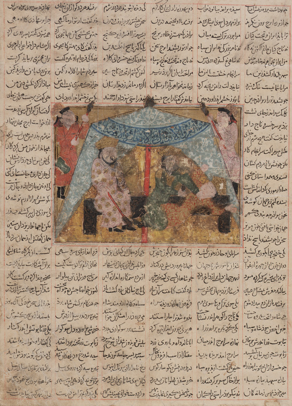 Folio ( Iraj slain by his two brothers, Salm and Tur) from Shahnameh (Book of Kings).